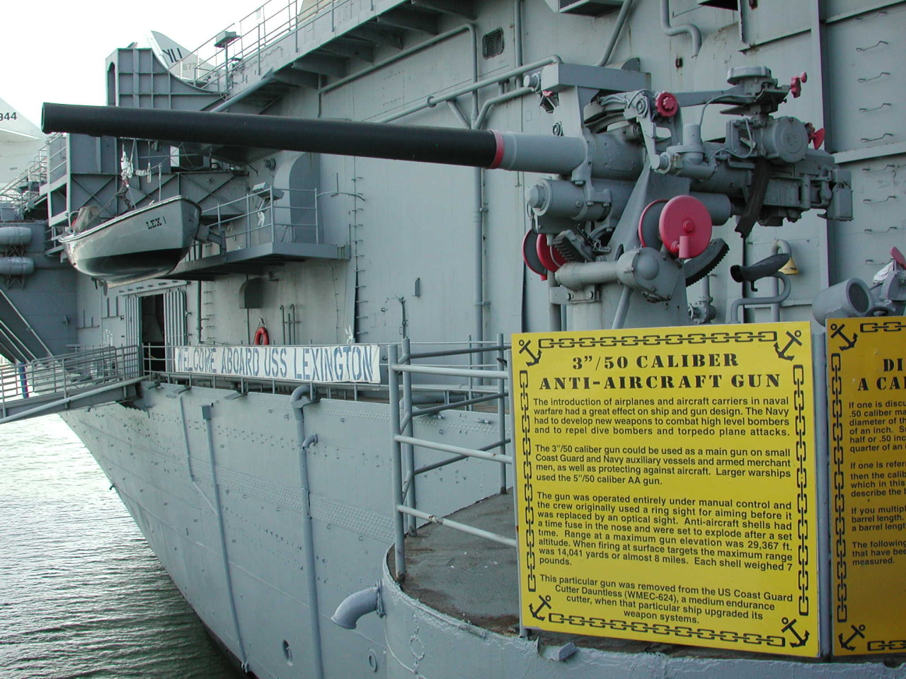 3" 50 Caliber Anti-Aircraft Gun: a semiautomatic dual purpose anti-aircraft and surface target weapon used by the U.S. Navy from the 1940's through the 1960's on a variety of combatant and transport ship classes with a power driven automatic loader that fired a fixed AA (Anti Aircraft) or HC (High Capacity) round.